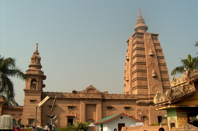 A buddhist temple in Sarnath, India near the place where Sakyamuni Buddha held His first sermon. Taken by me, Teemu Kiiski (Käyttäjä:Roger roger) in December 2005.